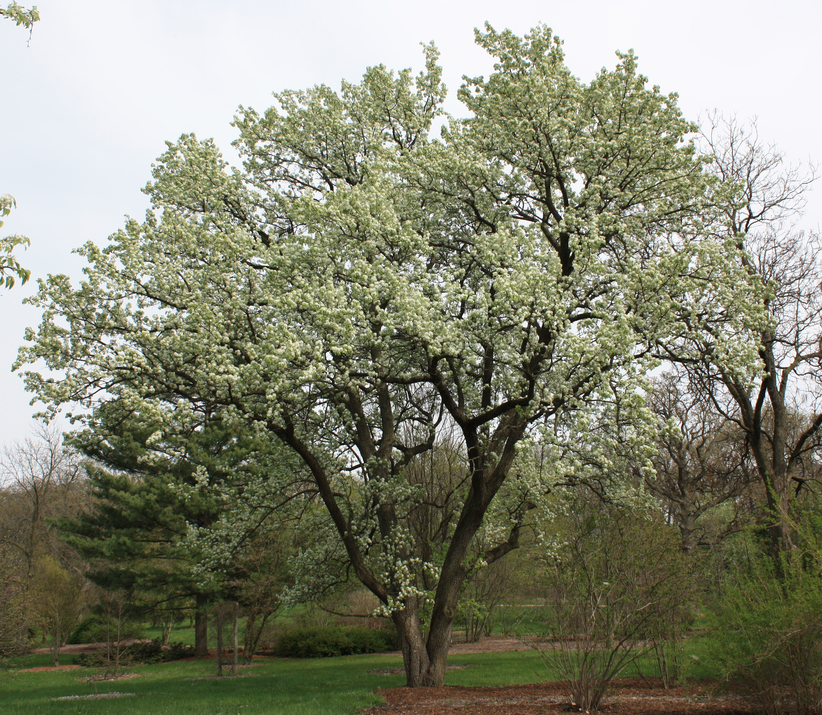 Callery Pear - Pyrus calleryana var. dimorphophylla, Morton Arboretum acc. 1400-24*1, from a graft, is 85 years old, and one of the original plantings in 1924.